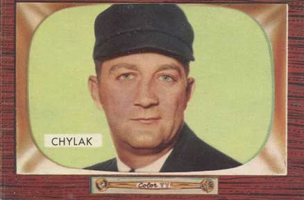 Major League Baseball umpire Nestor Chylak in 1955.